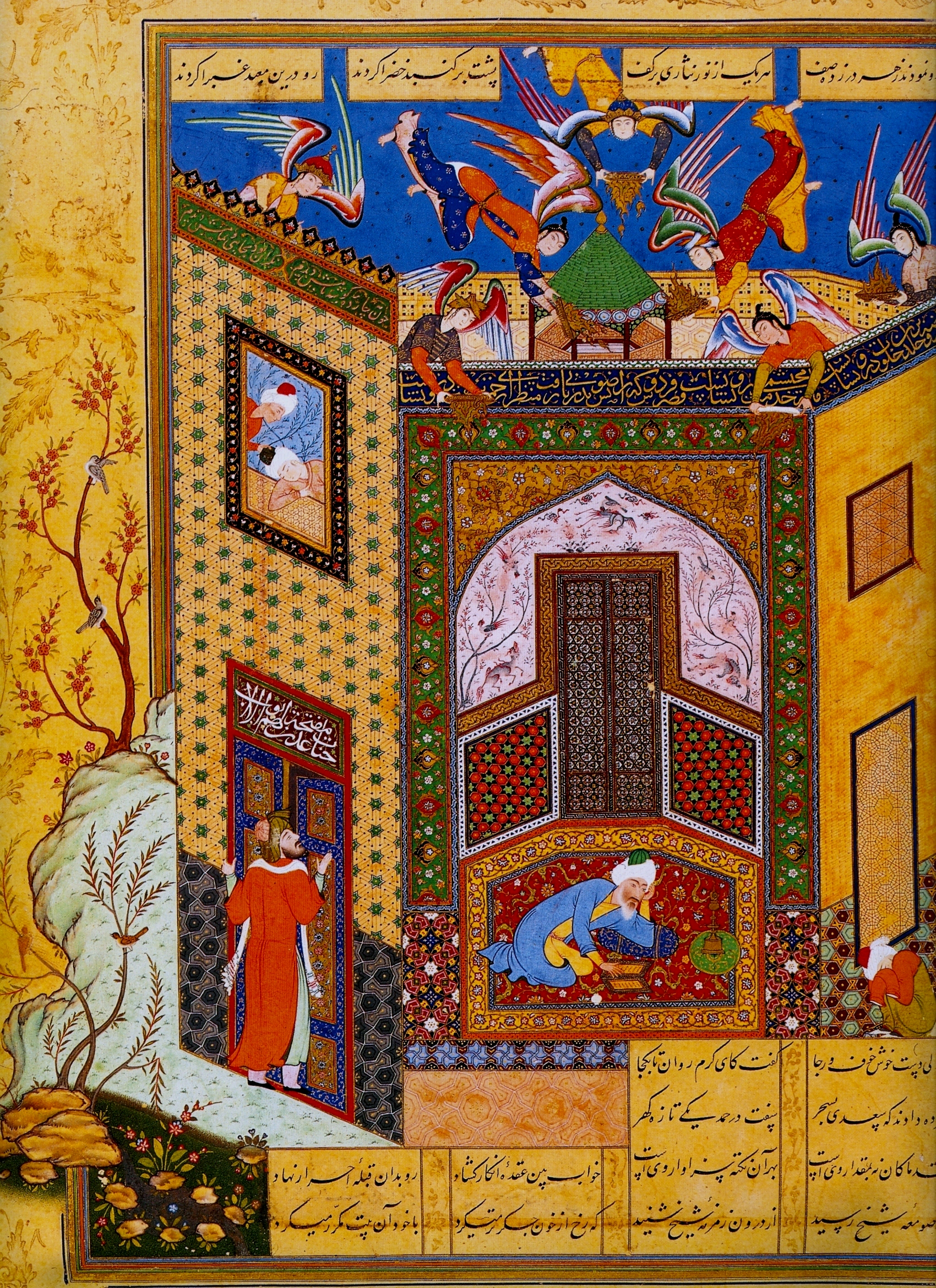 Miniature from Rose Garden of the Pious. Jami. 1553. Freer.